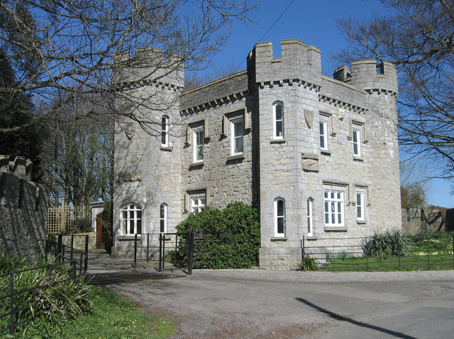 Dimlands Lodge, Llantwit Major, Vale of Glamorgan. Dimlands Lodge is located between Llantwit Major and St.Donat’s.